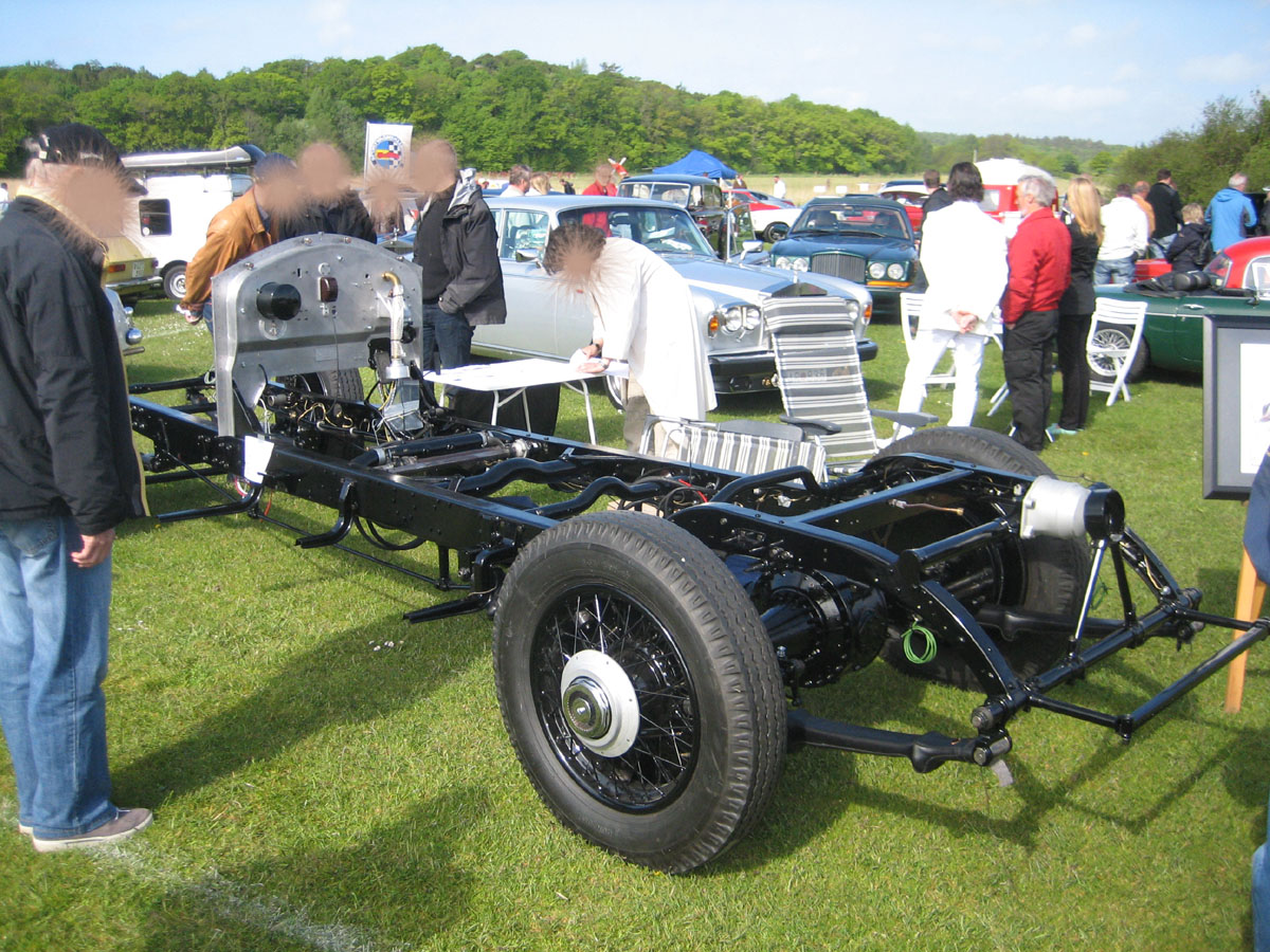 Restored frame from a Rolls-Royce Phantom II. Picture taken by me.